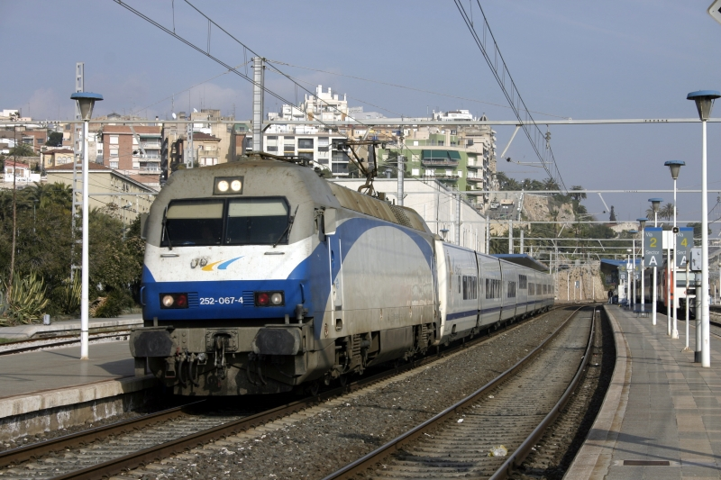 Tarragona railway station: Locomotive 252.067 with Altaria Barcelona Sants - Madrid Puerta de Atocha waiting for cleared track.